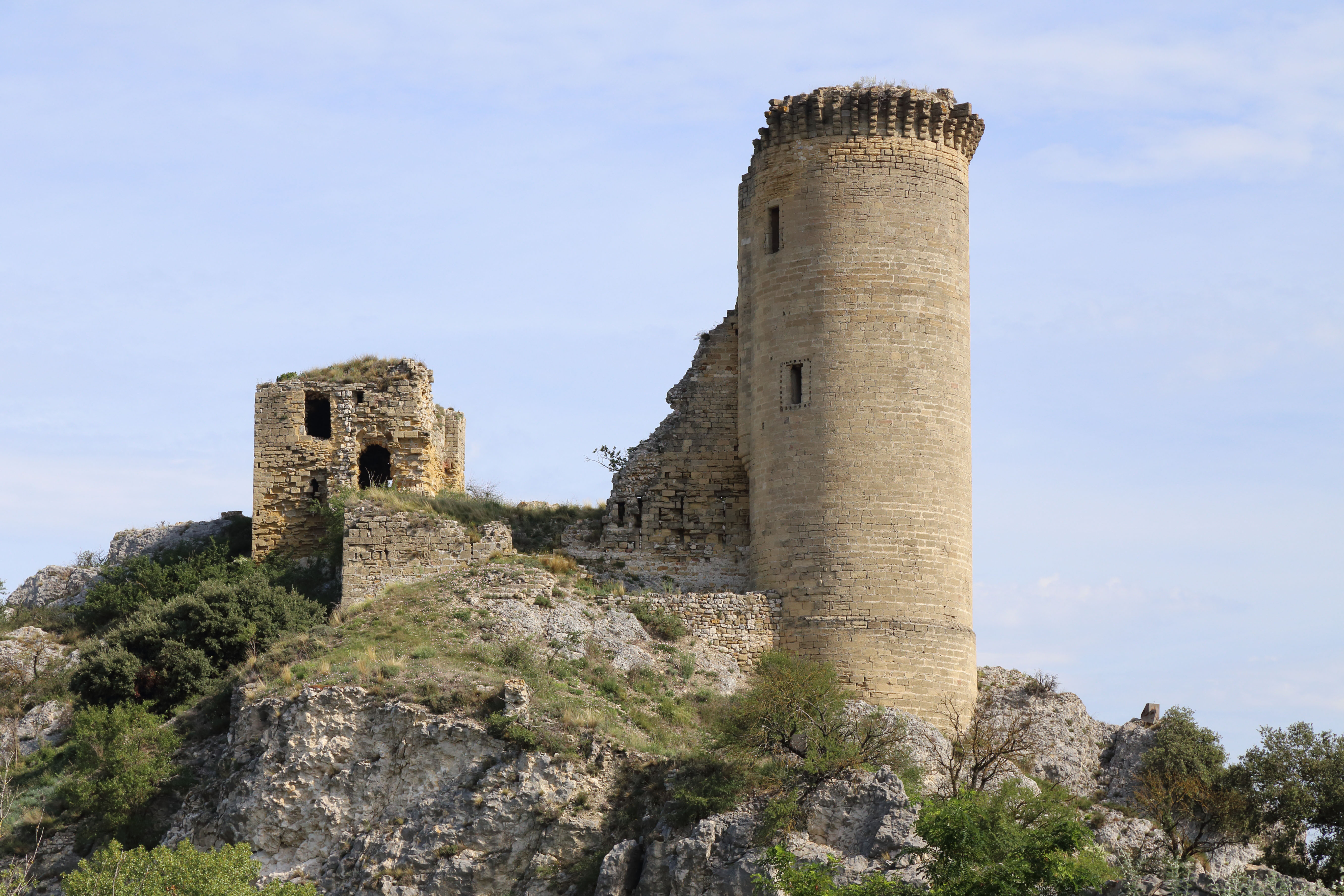 Château de l'Hers (Châteauneuf-du-Pape) viewed from the Rhone